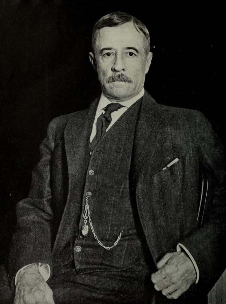 Portrait of John M. Parker